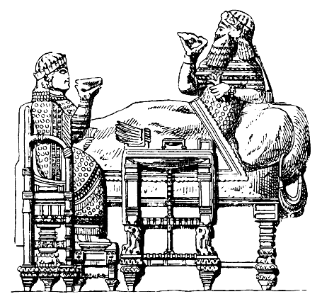 Assyrian furniture. King Asarhaddon's feast. After a relief from Nineveh Garden party